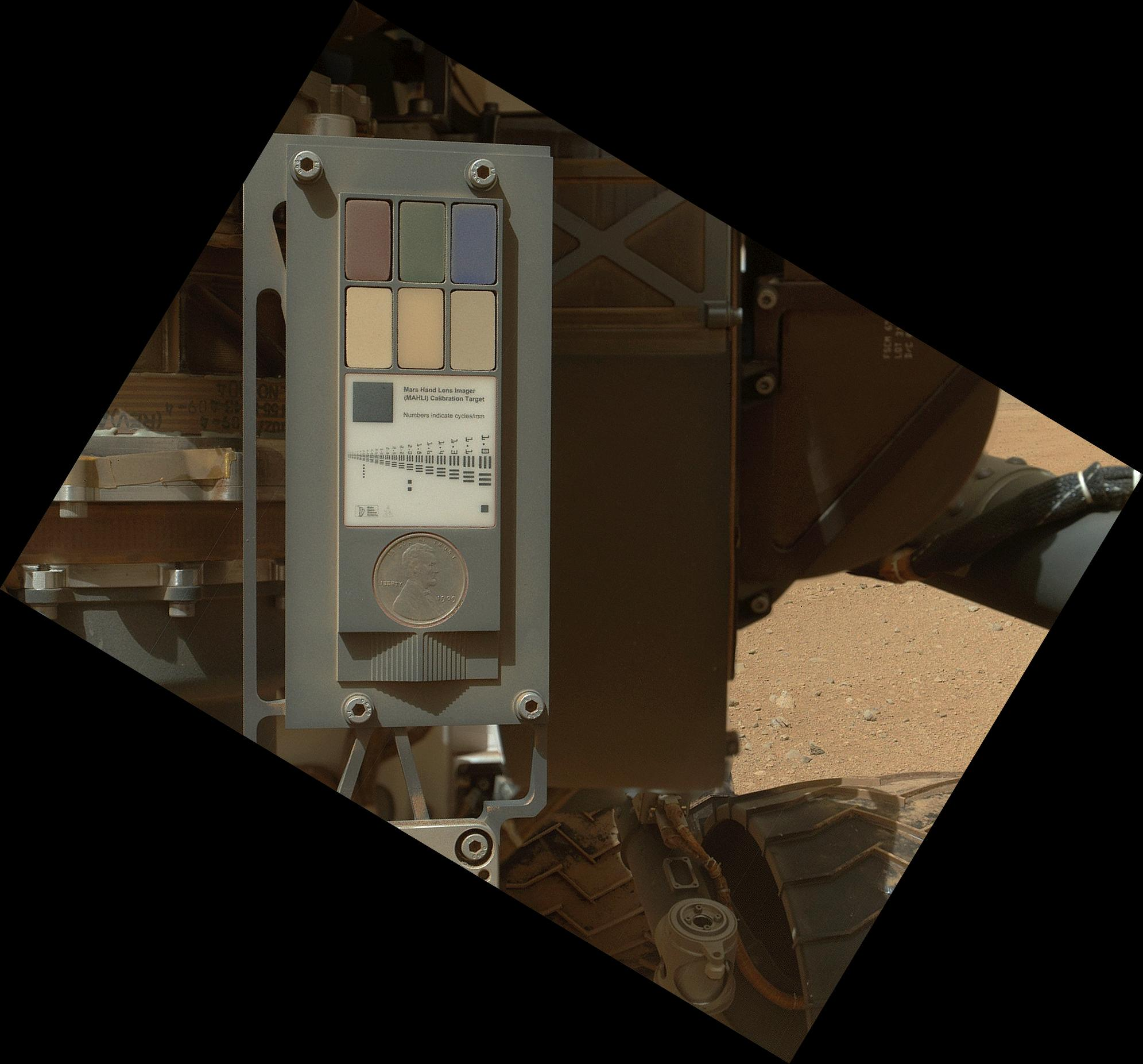 09.10.2012 Calibration Target for Curiosity's Arm Camera This view of the calibration target for the Mars Hand Lens Imager (MAHLI) aboard NASA's Mars rover Curiosity combines two images taken by that camera during the 34th Martian day, or sol, of Curiosity's work on Mars (Sept. 9, 2012). Part of Curiosity's left-front and center wheels and a patch of Martian ground are also visible. The camera is in the turret of tools at the end of Curiosity's robotic arm. Its calibration target is on the rover body near the base of the arm. The Sol 34 imaging by MAHLI was part of a week-long set of activities for characterizing the movement of the arm in Mars conditions. MAHLI has adjustable focus. The camera took two images with the same pointing: one with the calibration target in focus and one with the wheel and Martian ground in focus. The view here combines in-focus portions from these shots. The calibration target for the Mars Hand Lens Imager (MAHLI) instrument includes color references, a metric bar graphic, a 1909 VDB Lincoln penny, and a stair-step pattern for depth calibration. The penny is a nod to geologists' tradition of placing a coin or other object of known scale as a size reference in close-up photographs of rocks, and it gives the public a familiar object for perceiving size easily when it will be viewed by MAHLI on Mars. The new MAHLI images show that the calibration target has a coating of Martian dust on it. This is unsurprising - the target was facing directly toward the plume of dust stirred up by the sky crane's descent engines during the final phase of the 6 August 2012 landing. The main purpose of Curiosity's MAHLI camera is to acquire close-up, high-resolution views of rocks and soil at the rover's Gale Crater field site. The camera is capable of focusing on any target at distances of about 0.8 inch (2.1 centimeters) to infinity, providing versatility for other uses. Image Credit: NASA/JPL-Caltech/Malin Space Science Systems